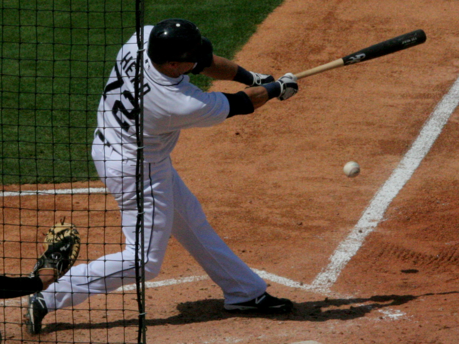 Jerad Head bats for the Detroit Tigers in spring training in 2012.